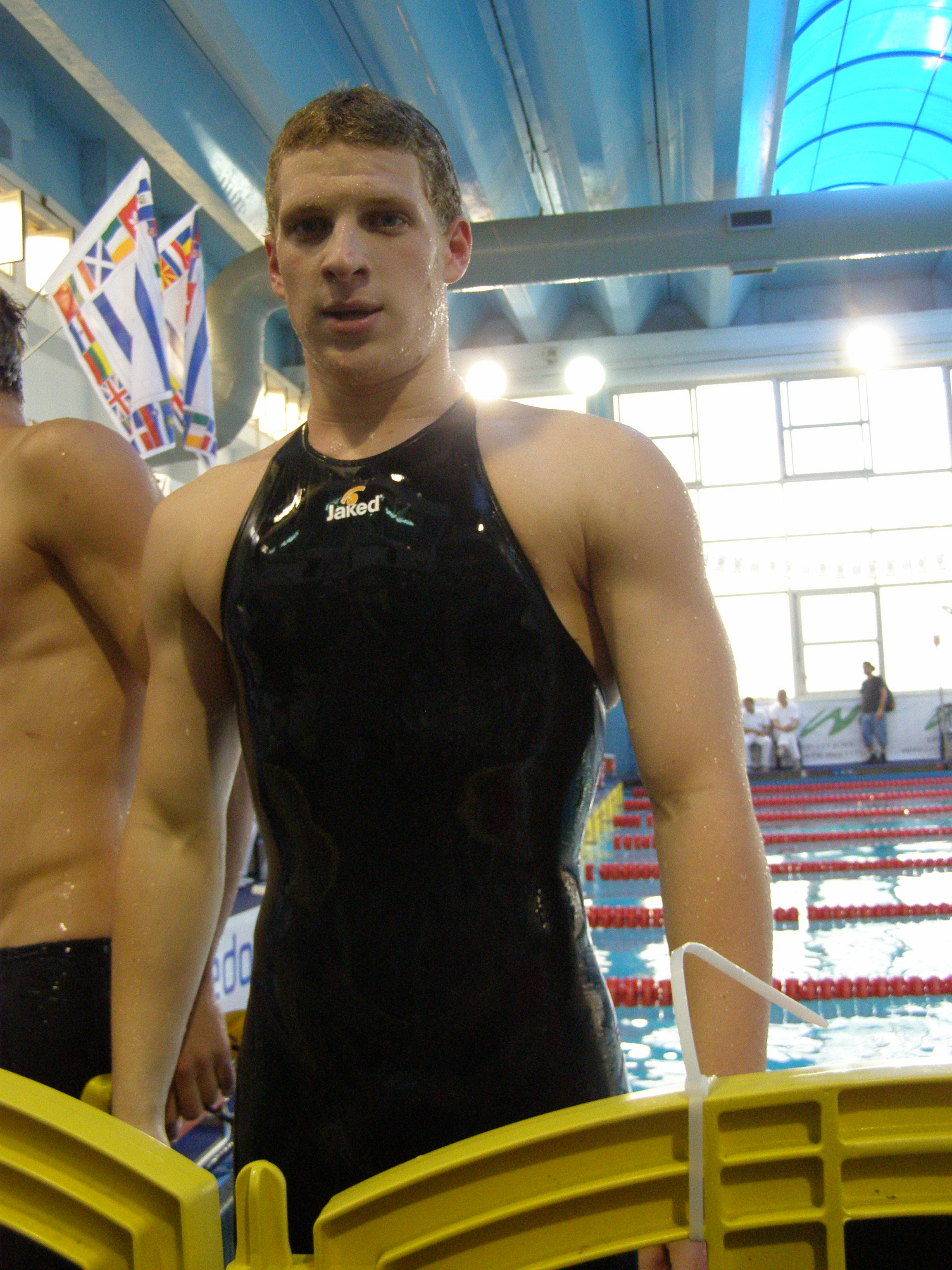 Nimrod Hayet at the Maccabiah games 07/2009